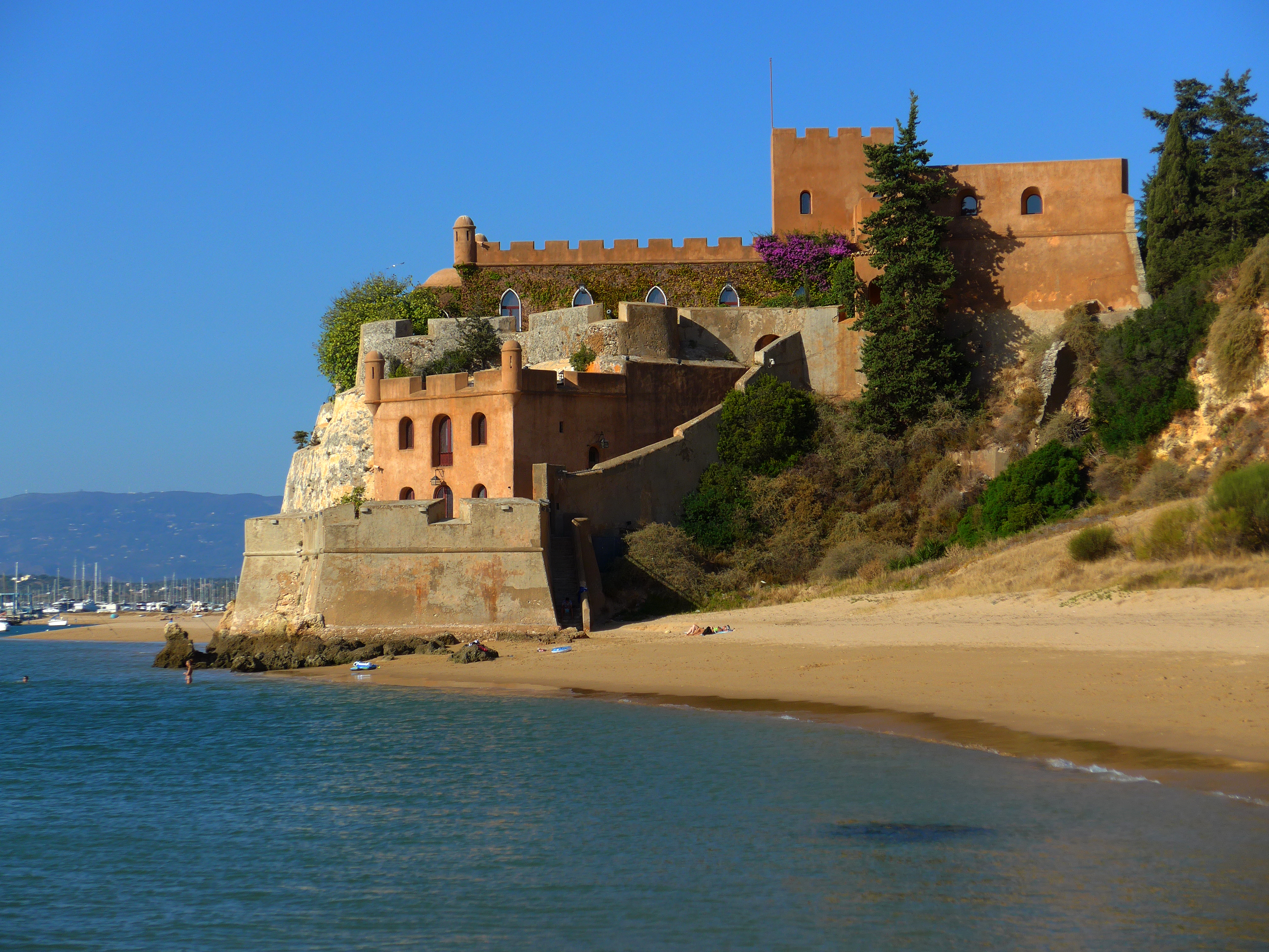 Ferragudo, Fort of São João do Arade. Wikidata has entry Q5472498 with data related to this item.